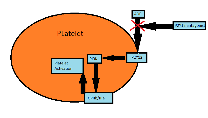 Graphical abstract of how P2Y12 antagonist inhibit platelet activation.